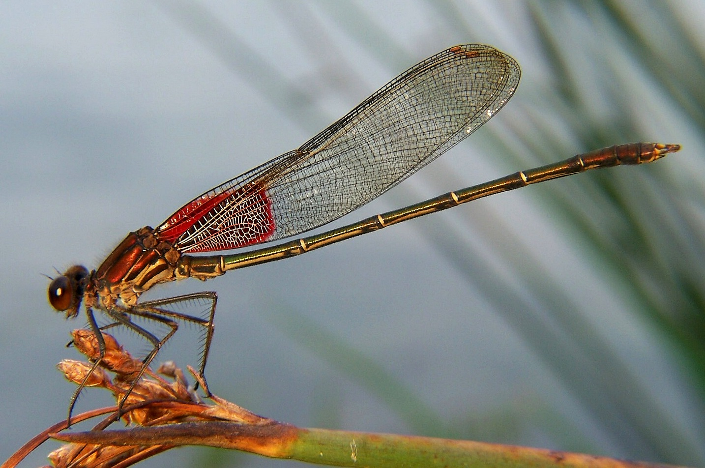 jpeg image, adult male damselfly "American Rubyspot" Hetaerina americana